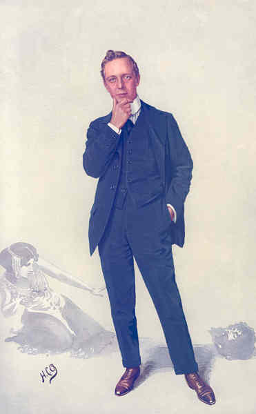 Caricature of Alfred Butt. Caption read "The Palace". In background is sketch of Maud Allan in her role as Salomé along with the head of John the Baptist.